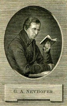 German writer G.A. Neuhofer